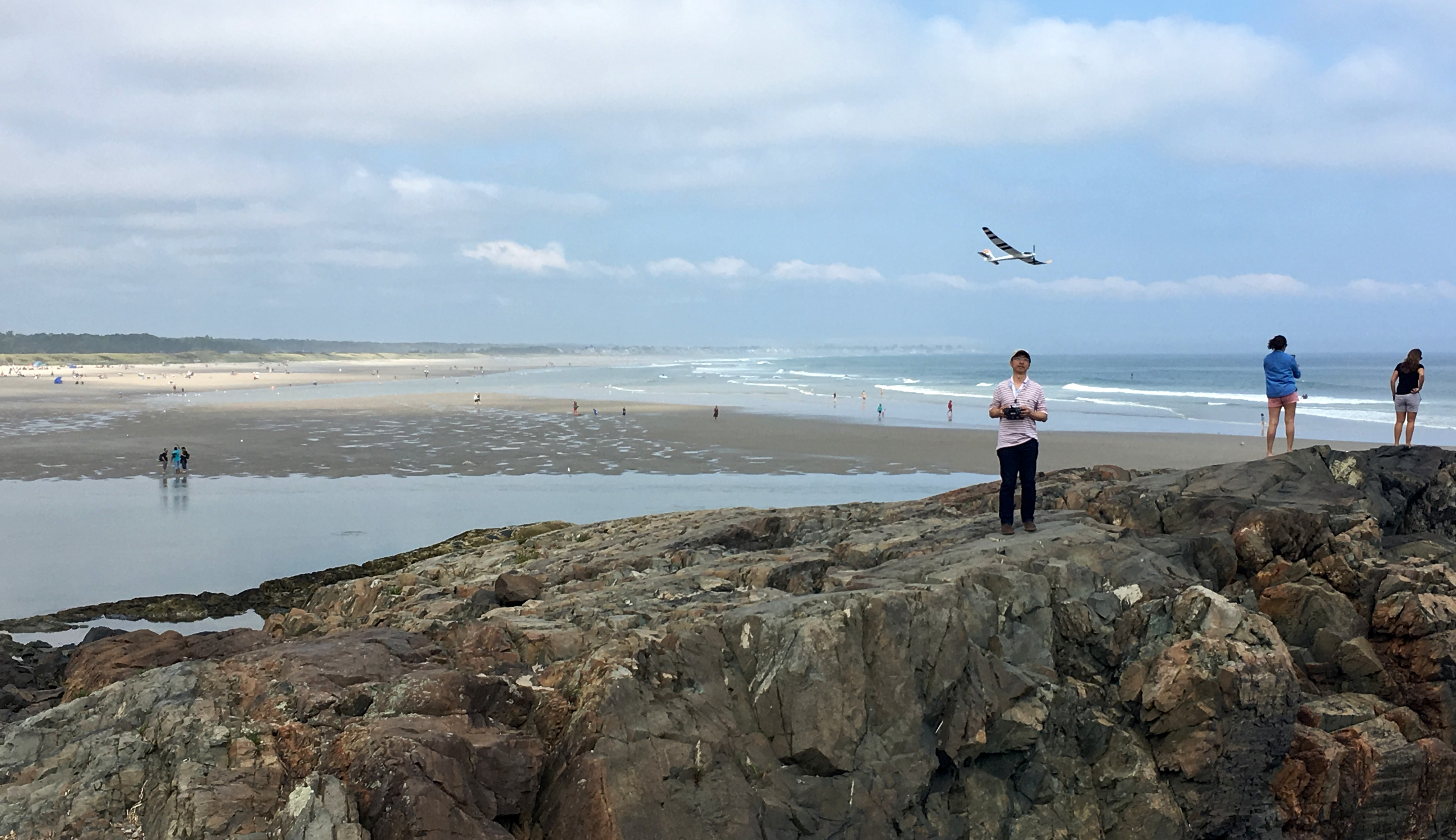 Flying a model glider on the famouse rock formation by Marginal Way